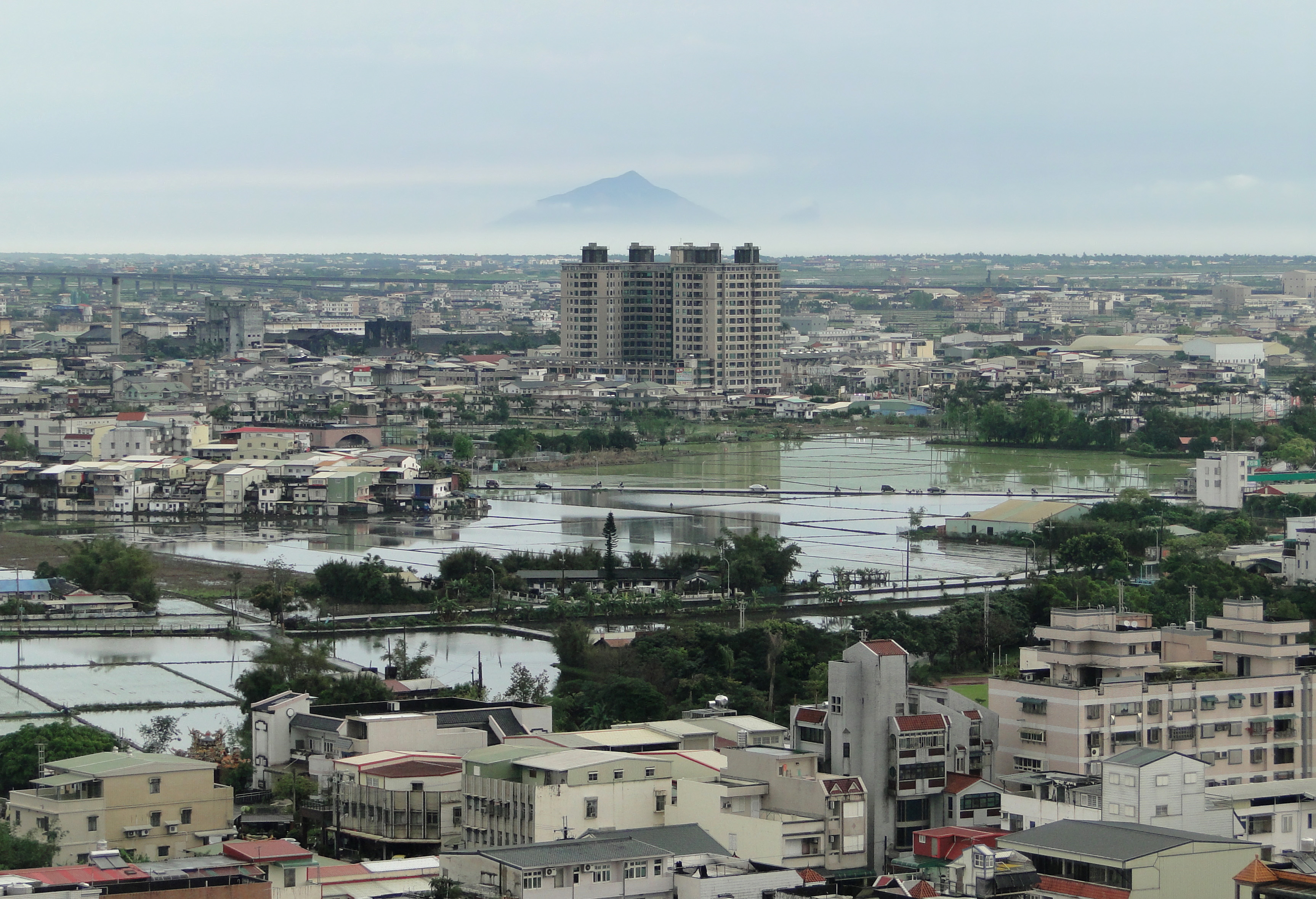 Luodong Township, Yilan County, Taiwan